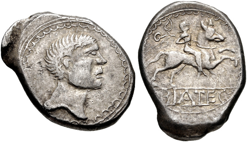 Central Europe, Boii. Biatec. Mid-late 1st century BC. AR Hexadrachm (27mm, 17.09 g, 8h). Bare male head right within scalloped border Rider, holding branch, on griffin galloping right; below, BIATEC between two lines; all within scalloped border.